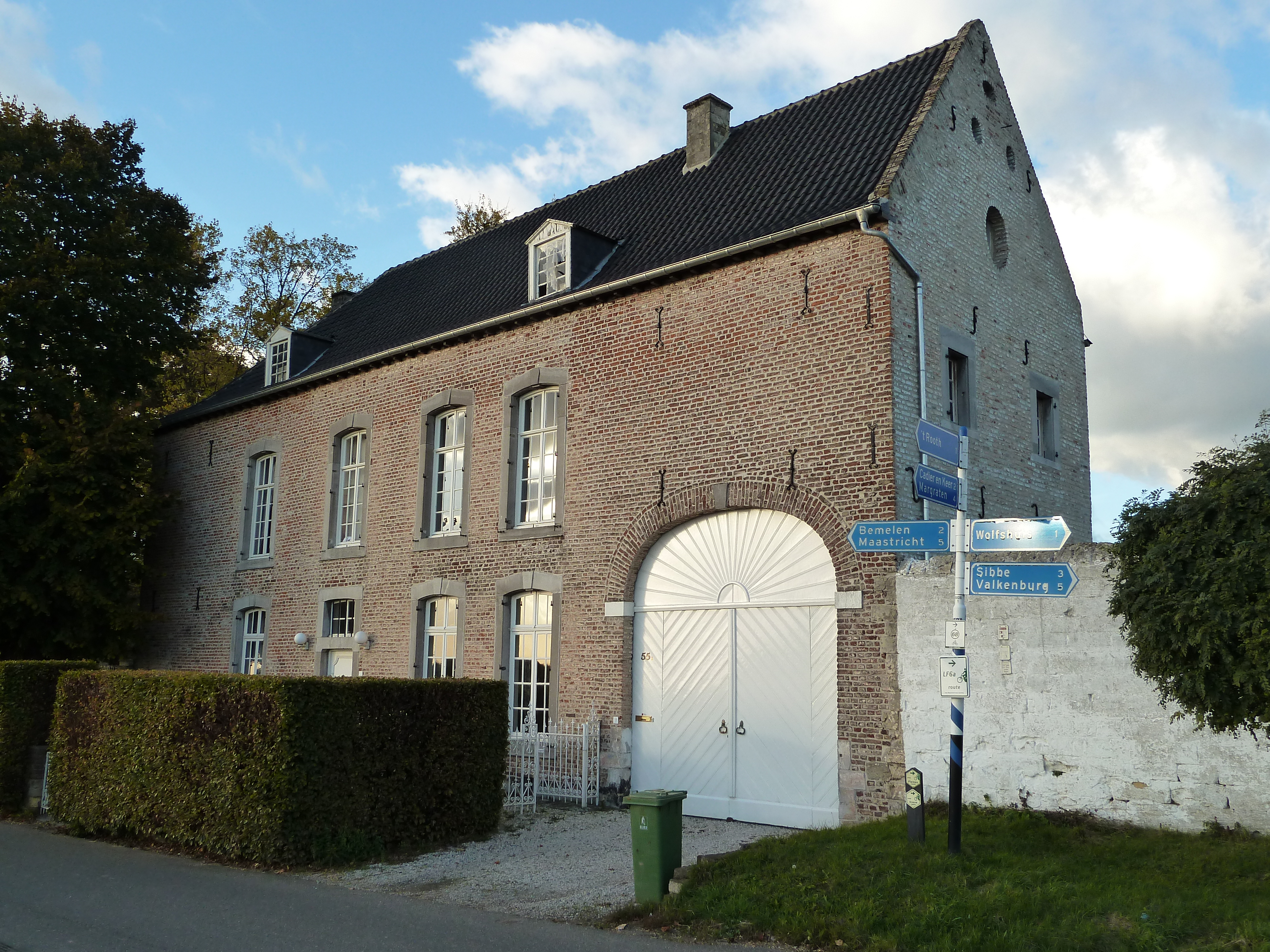 Gasthuis 55, Bemelen, Limburg, the Netherlands